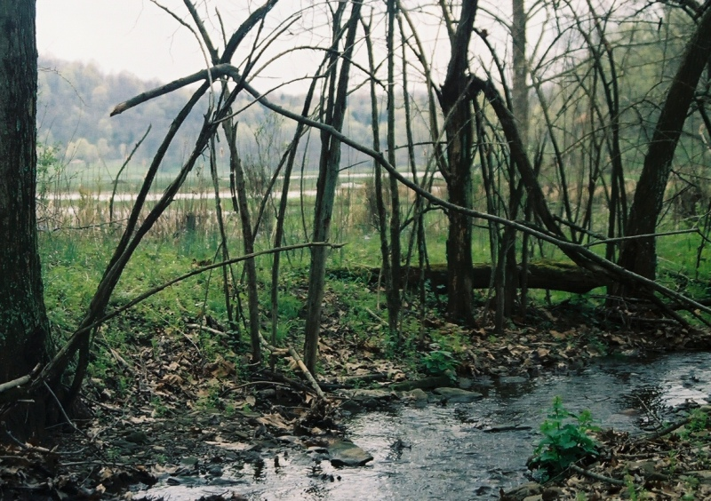 I'm not very familiar with the park, but it's my understanding that the puddles in the distance were the middle of Duke Lake before faults discovered in the dam during the Hurricane Ivan floods caused them to drain down the lake.